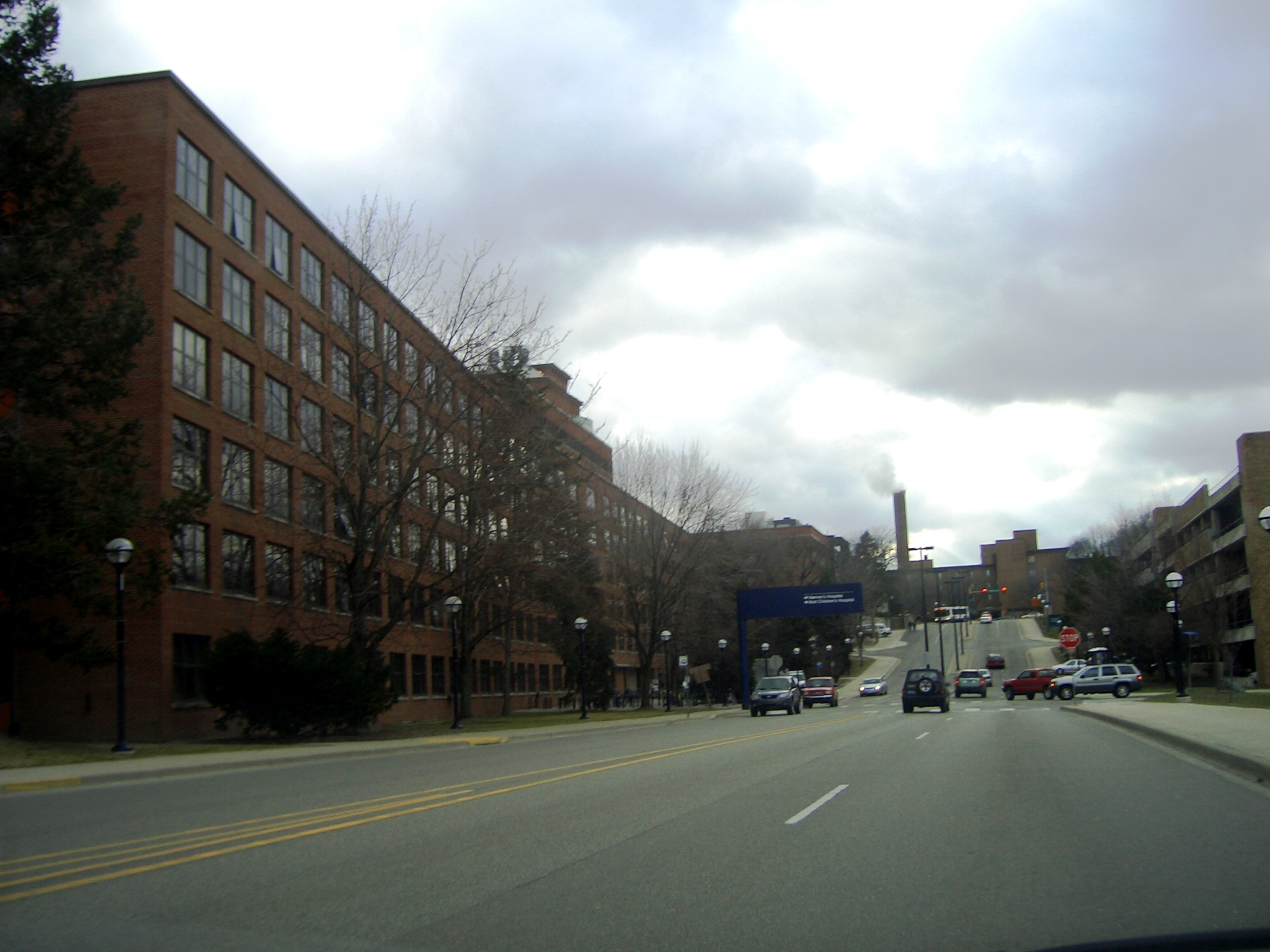 Picture of Mary Markley Hall from E. Medical Center Drive, in Ann Arbor, MI. Markley Hall is on the left side of the road. This was taken on the campus of The University of Michigan. Markley Hall is located at 1503 Washington Hts., Ann Arbor, MI 48109.